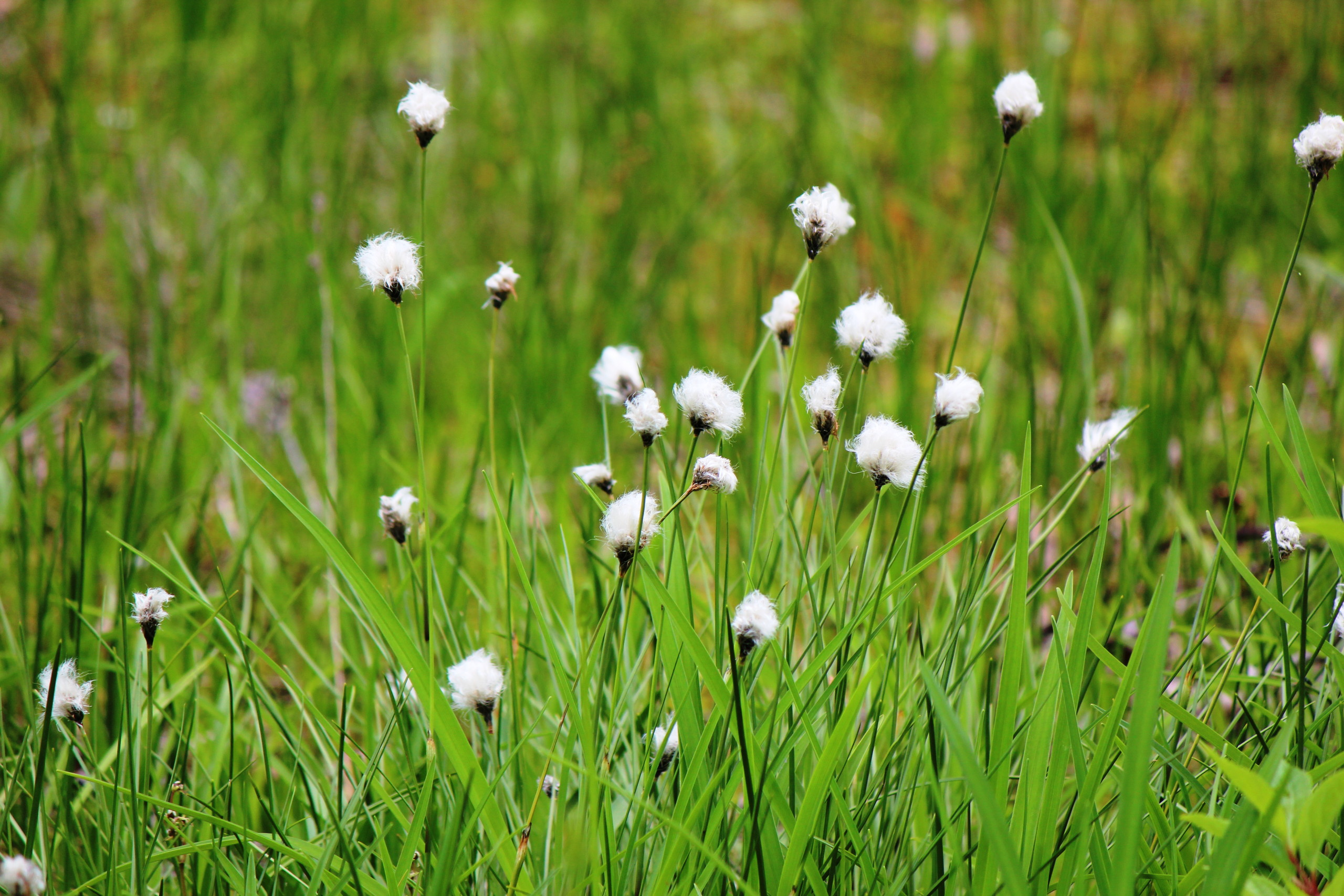 Eriophorum vaginatum in Amo Wetland of Mount Mominuka Japan.